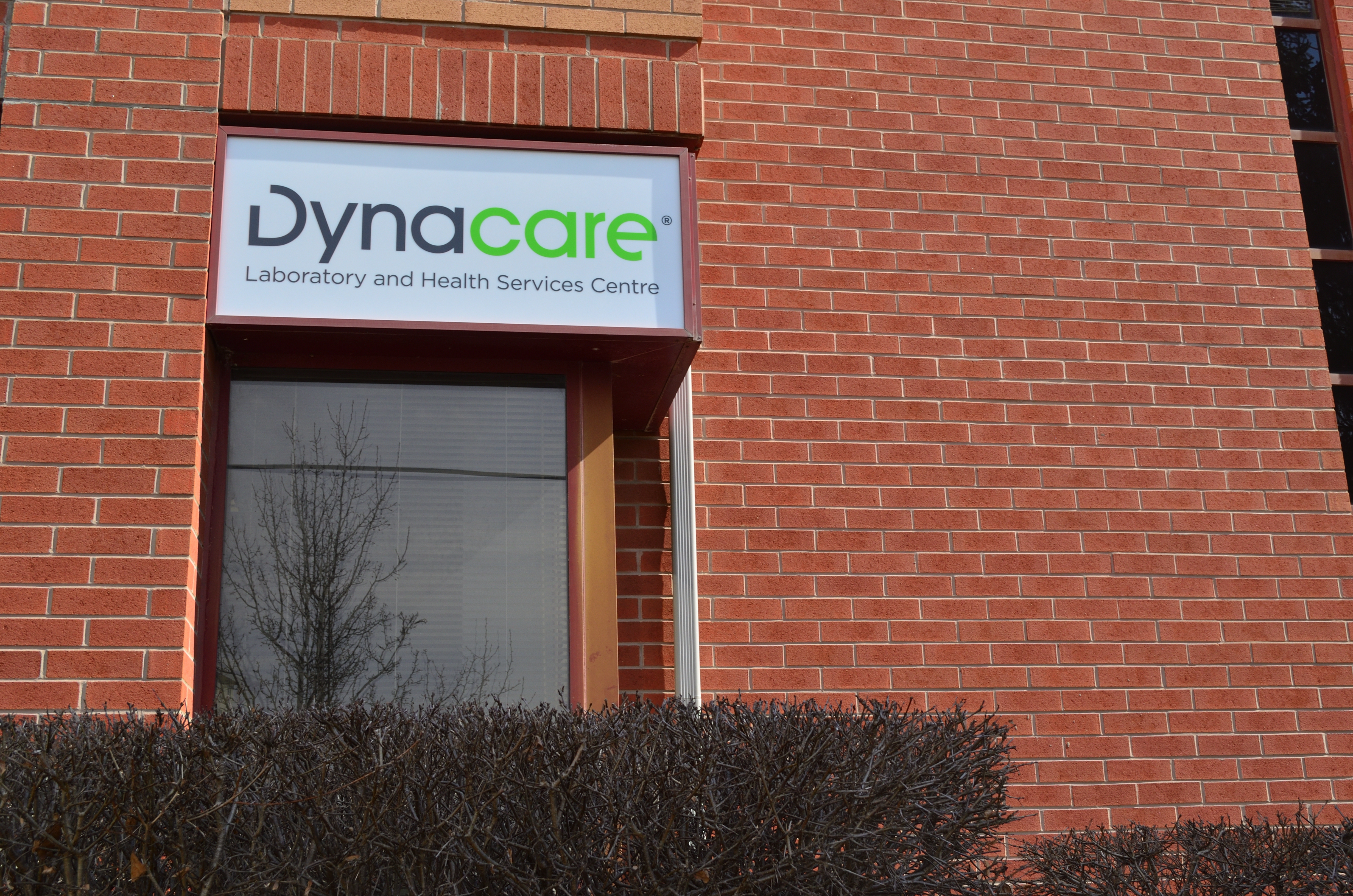 Dynacare - Address: 10 Unionville Gate, Unionville, ON L3R 0W7